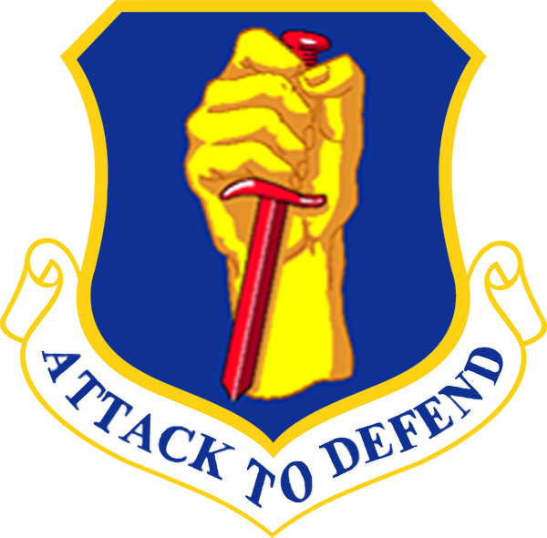 Emblem of the 35th Fighter Wing, a wing of the United States Air Force